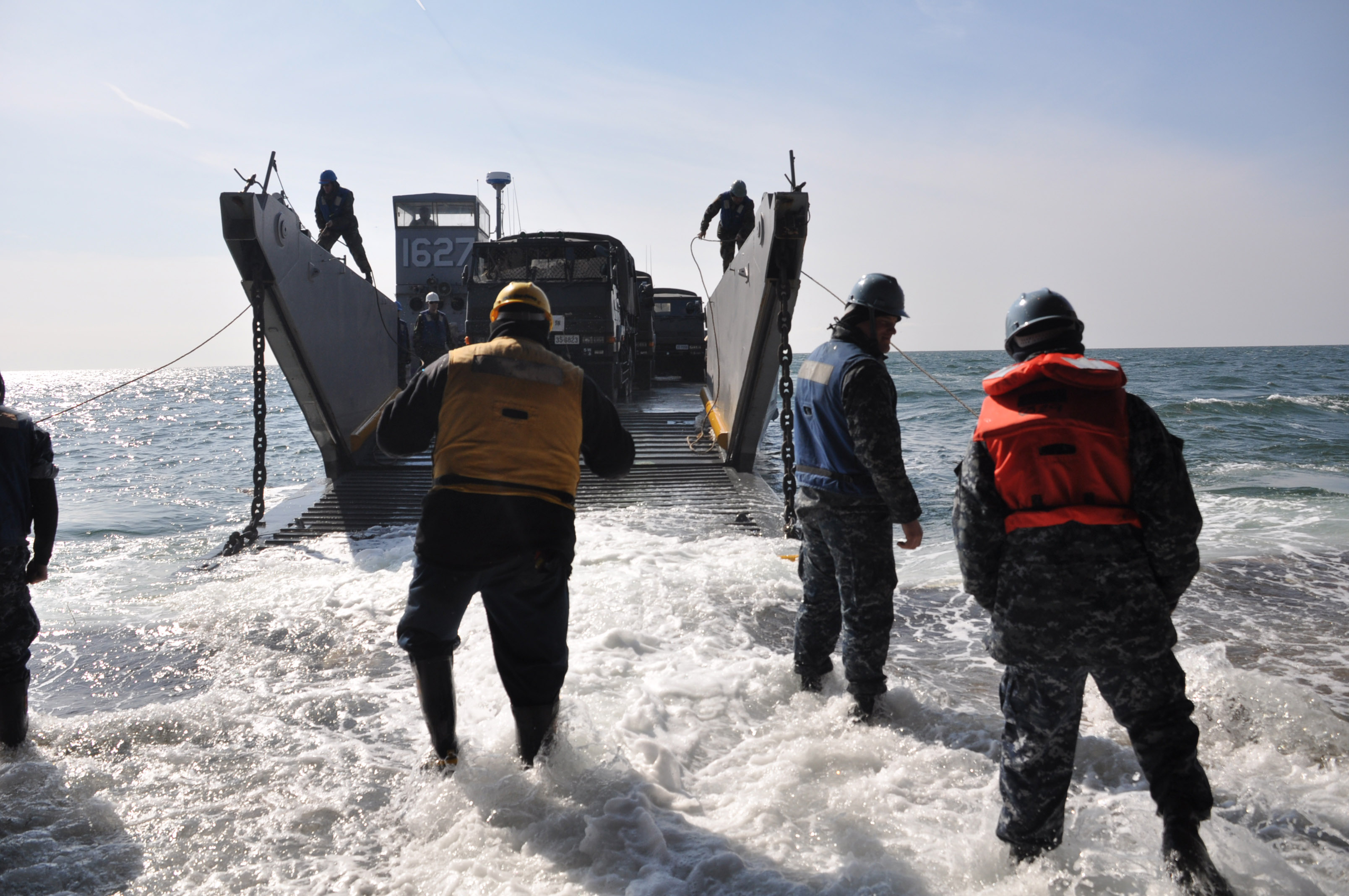 SEA OF JAPAN (March 16, 2011) Sailors aboard the amphibious dock landing ship USS Tortuga (LSD 46) prepare to receive Japan Ground Self-Defense Force trucks carrying humanitarian supplies from a landing craft utility (LCU). Tortuga is transporting the equipment to support Operation Tomodachi, a humanitarian assistance mission in the aftermath of a 9.0 magnitude earthquake and subsequent tsunami. Boatswain Mate 2nd class Stephen Grande is the petty officer in charge of this evolution happening on board the USS Tortuga (LSD 46). (U.S. Navy photo by Mass Communication Specialist Seaman Scott Bourque/Released)